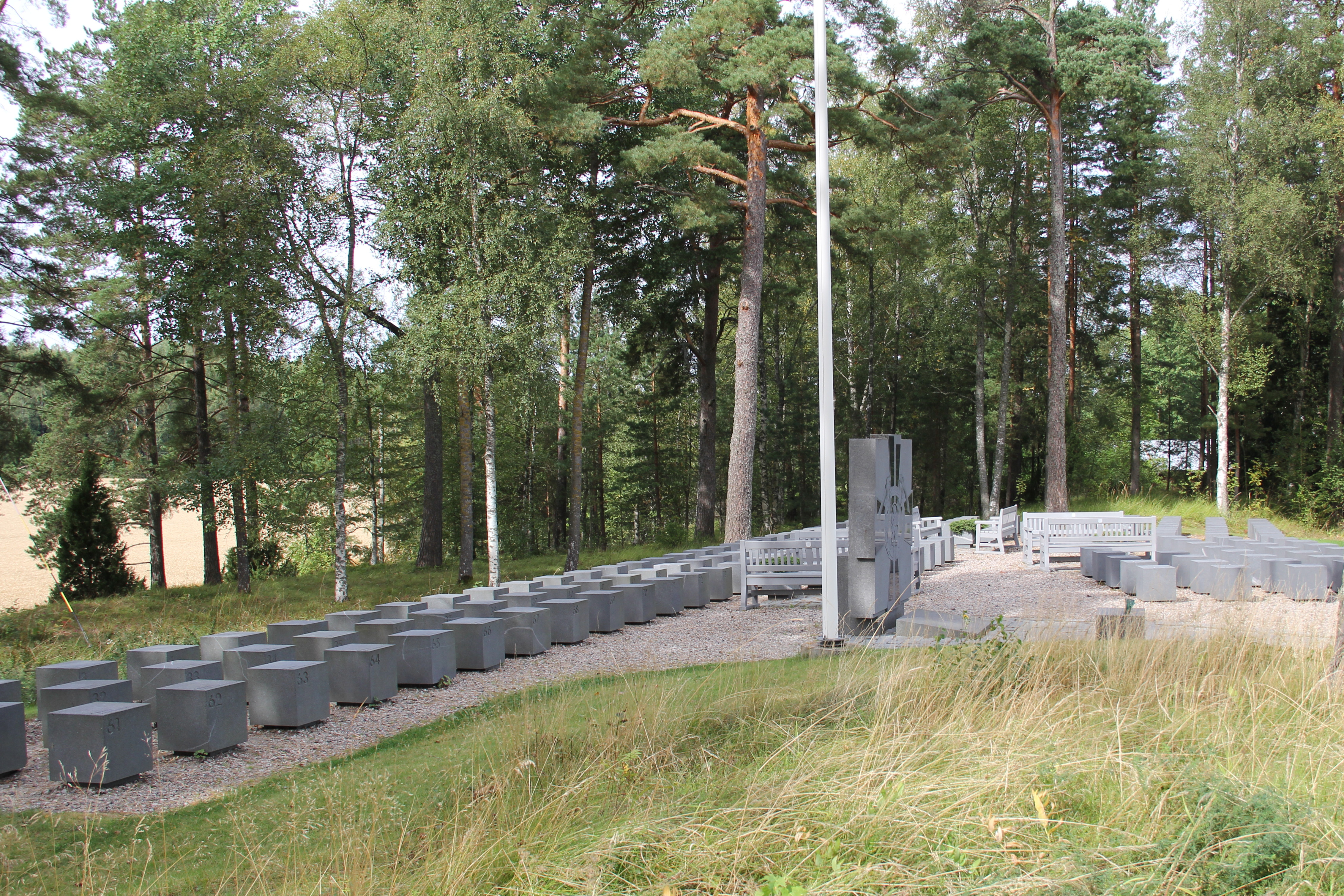 Askainen Knights park, Askainen, Masku, Finland. - A park established for honoring of Knights of the Mannerheim Cross. - General view.